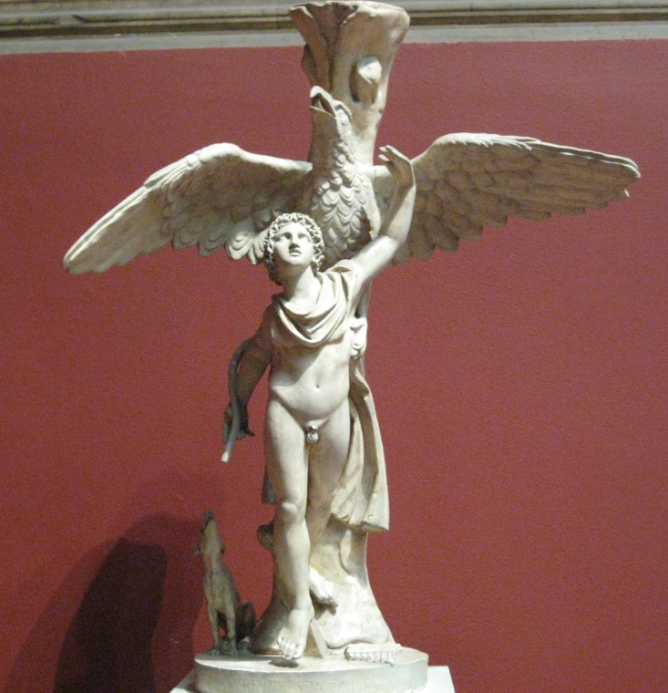 Ganymede carried off by the eagle, plaster cast in Pushkin museum, after the original in the Vatican Museum.